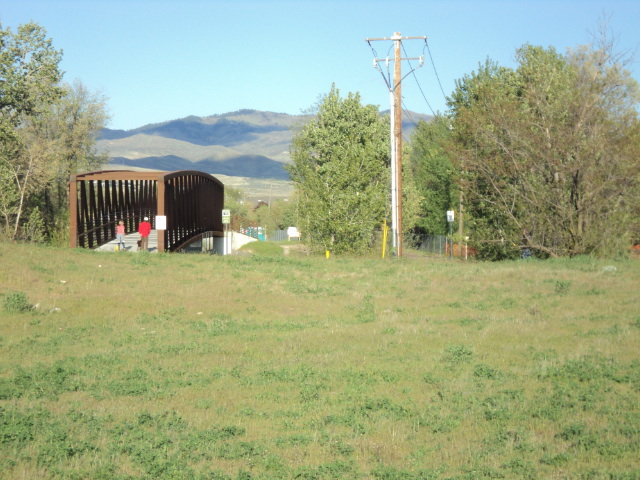 The 36th Ave. Pedestrian Bridge connecting Garden City with Boise, Idaho over the Boise River, just east of SW 2.0 on the Greenbelt. The Boise hills are in the distance.